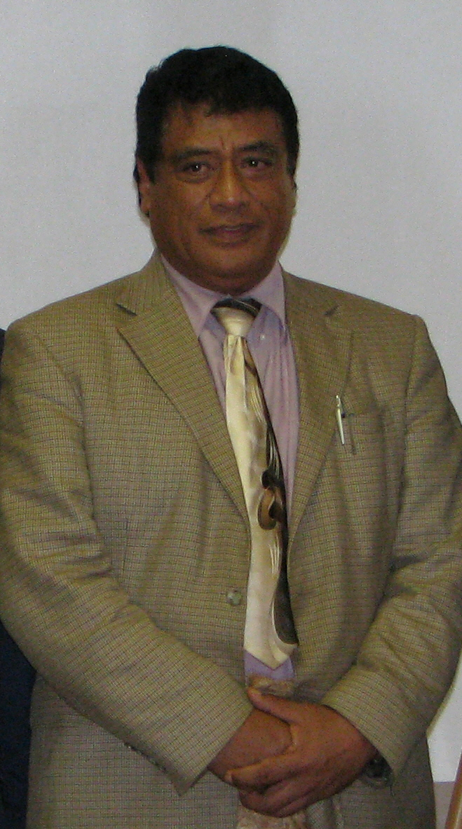 Sialeʻataongo Tuʻivakanō, Prime Minister of Tonga.